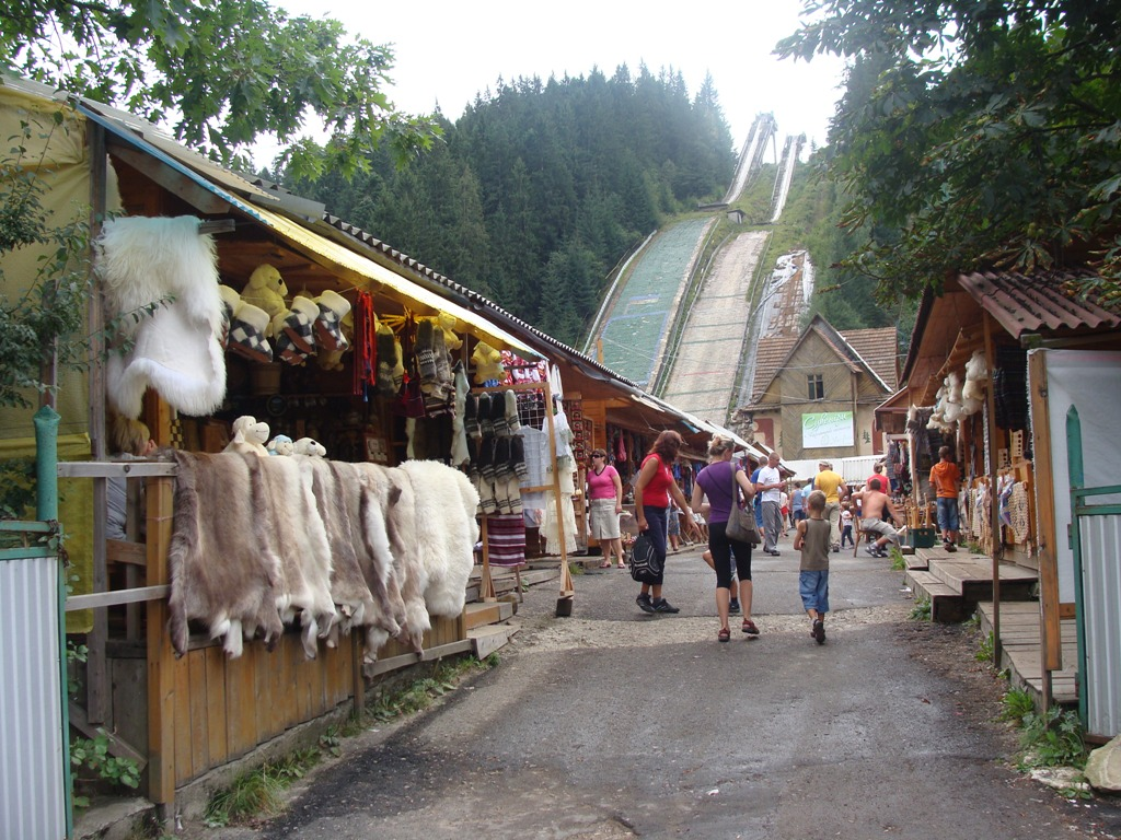 Ski jump and Mart in Vorokhta